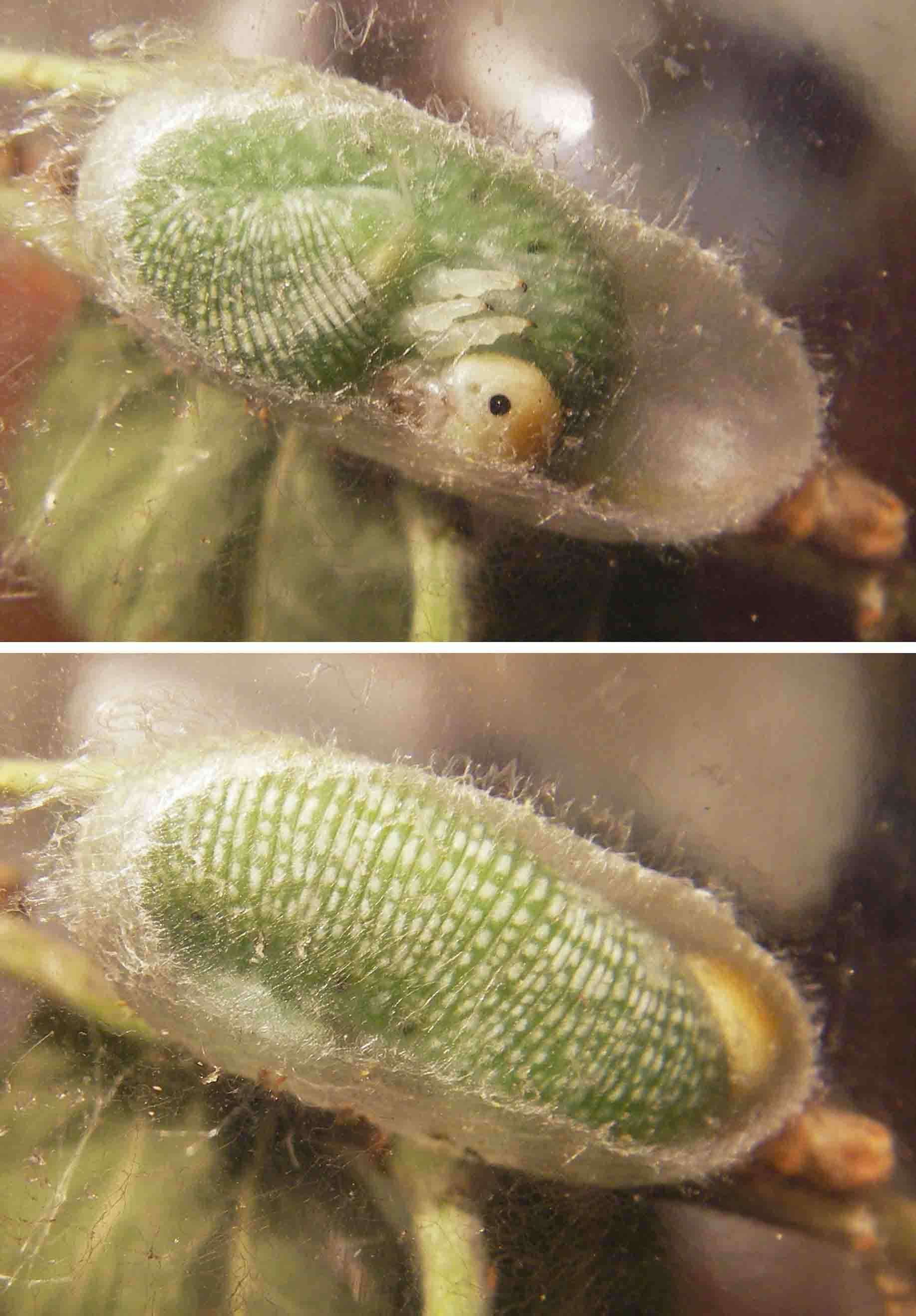 Larva of sawfly Cimbex sp. creates a cocoon on a glass wall.